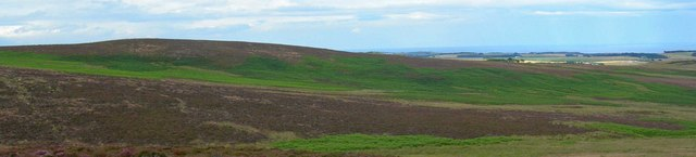 Southwest flank of Curlethney Hill looking over Burn of Monboys watershed